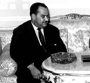 Iraqi Prime Minister Tahir Yahya meeting with Gamal Abdel Nasser (not shown) in Cairo